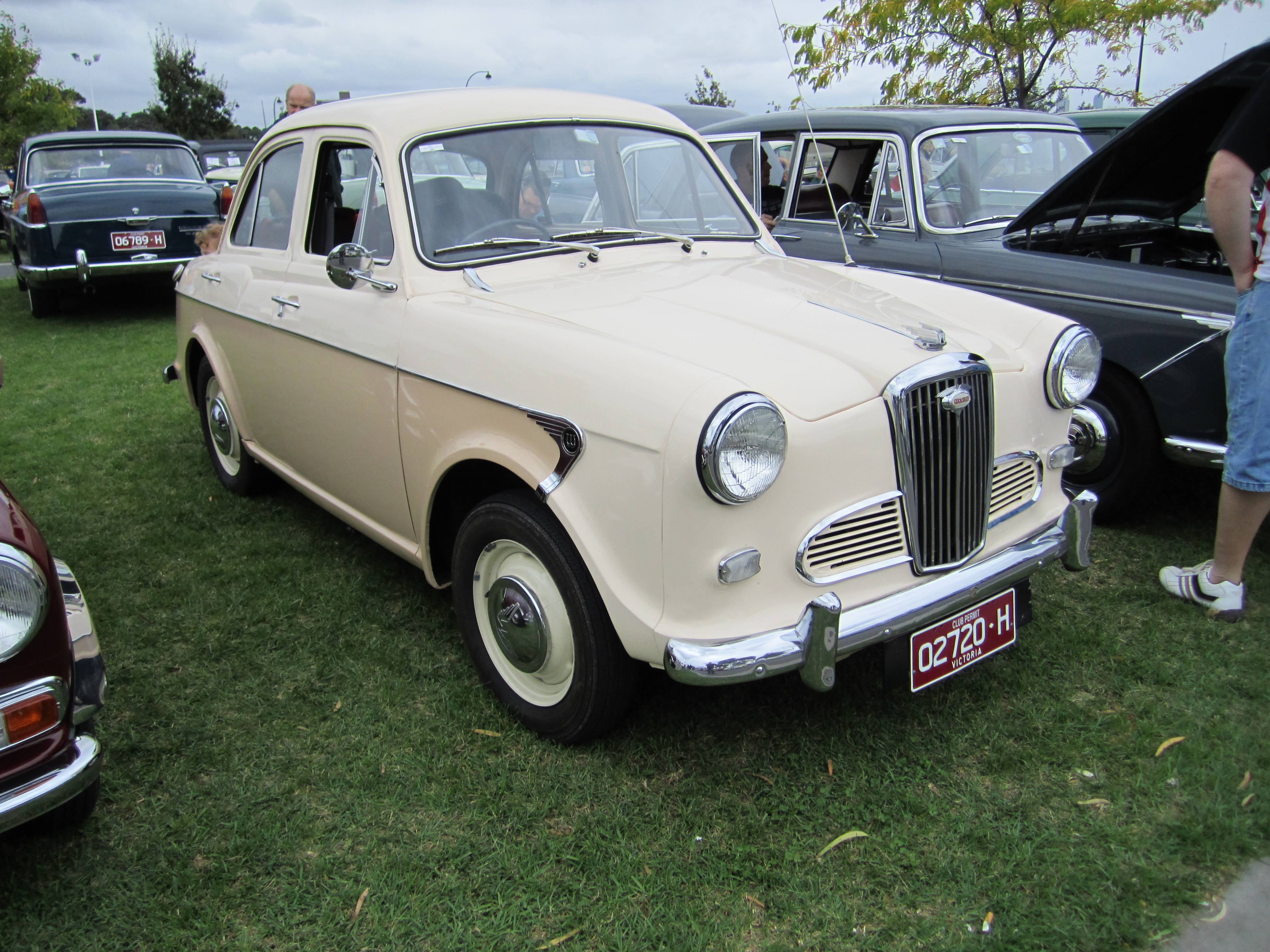 The Wolseley 1500 was built in Australia by BMC Australia along with the closely related Morris Major & Austin Lancer Series 1 models from 1958 to 1959. It was powered by a 1489cc 4 cylinder engine.